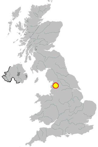 Position of Lancaster in the United Kingdom.